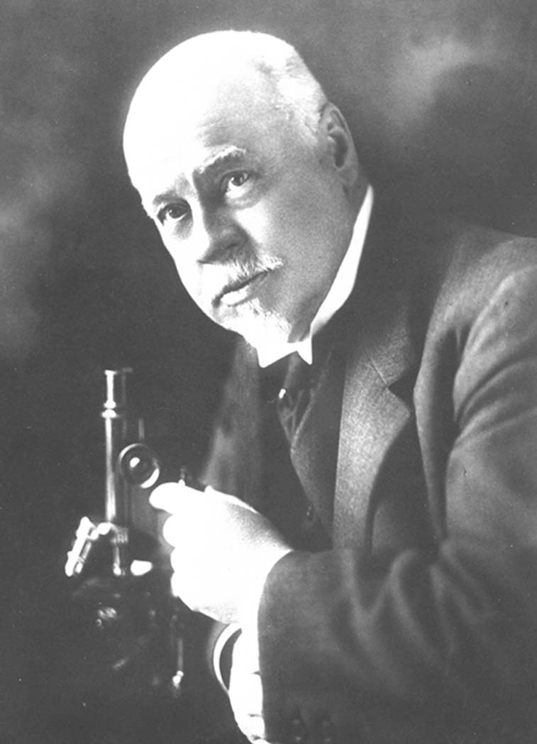 Photograph of Dr. William H. Welch, first Dean of Johns Hopkins University School of Medicine.